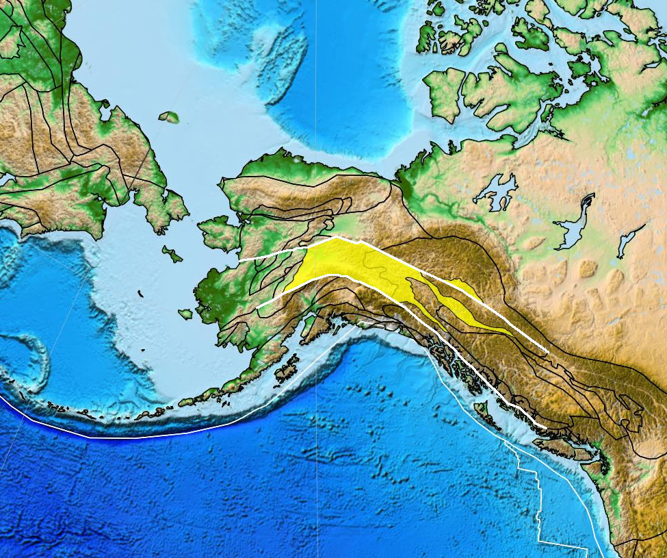 Location and extent of the Yukon-Tanana Terrane (yellow) in Alaska, Yukon, and British Columbia. Kaltag–Tintina fault (north of YTT) and Fairwell–Denali Fault (south of YTT) in white. Made in GPlates using data sets described below.